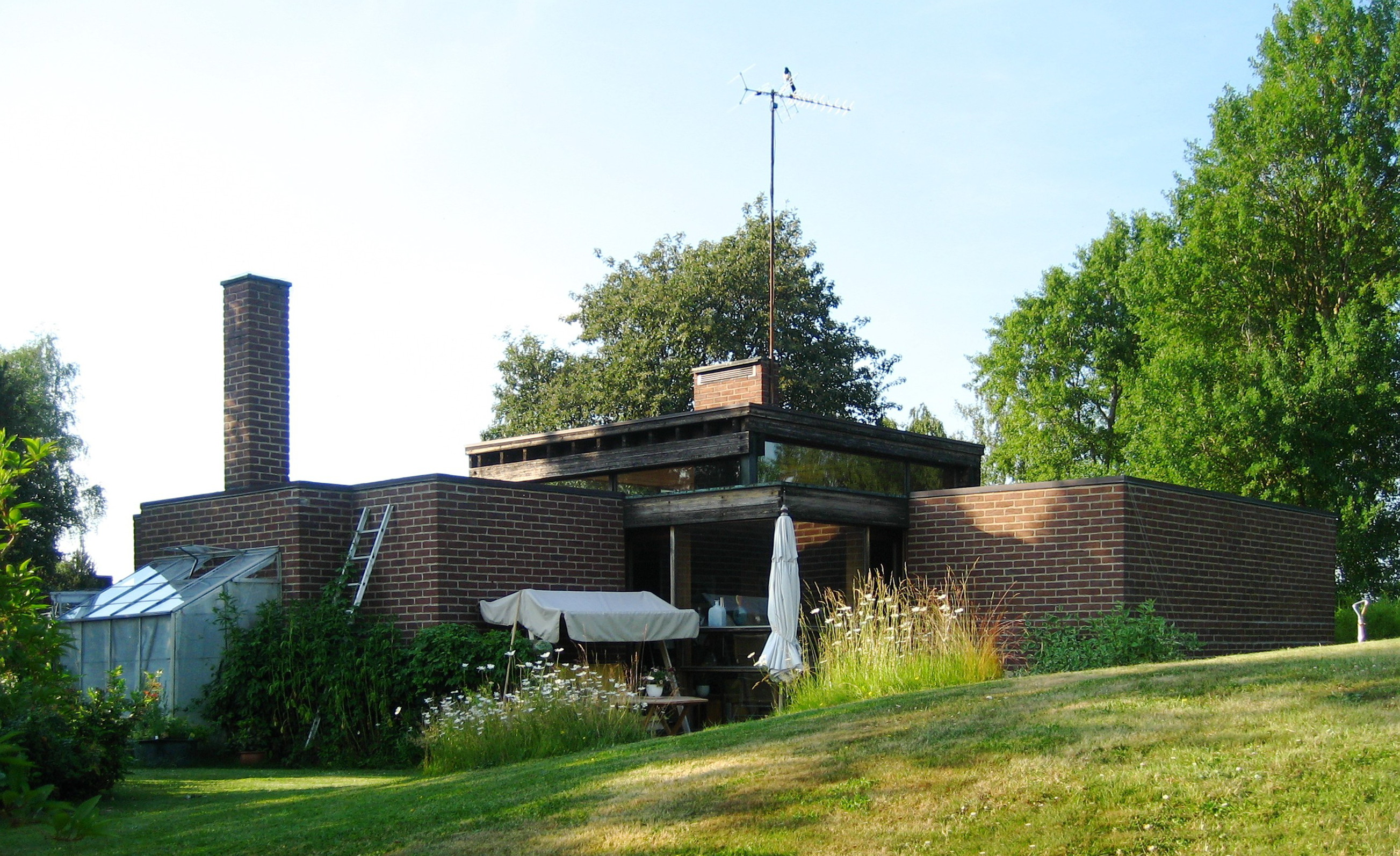 Villa Norrköping in Sweden. Architect: Sverre Fehn